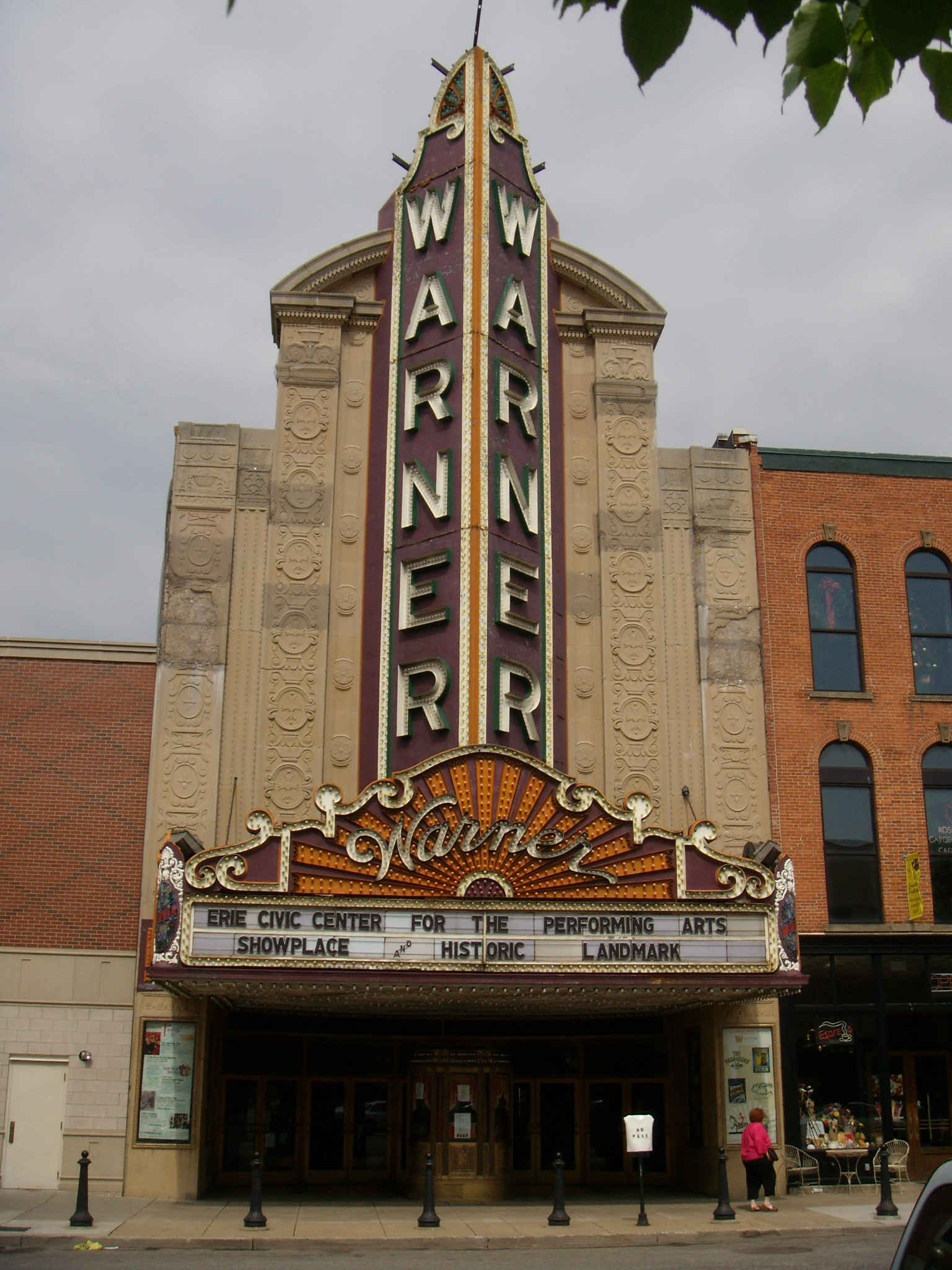 The Warner Theatre in Erie, Pennsylvania. Exterior front view, 2007.